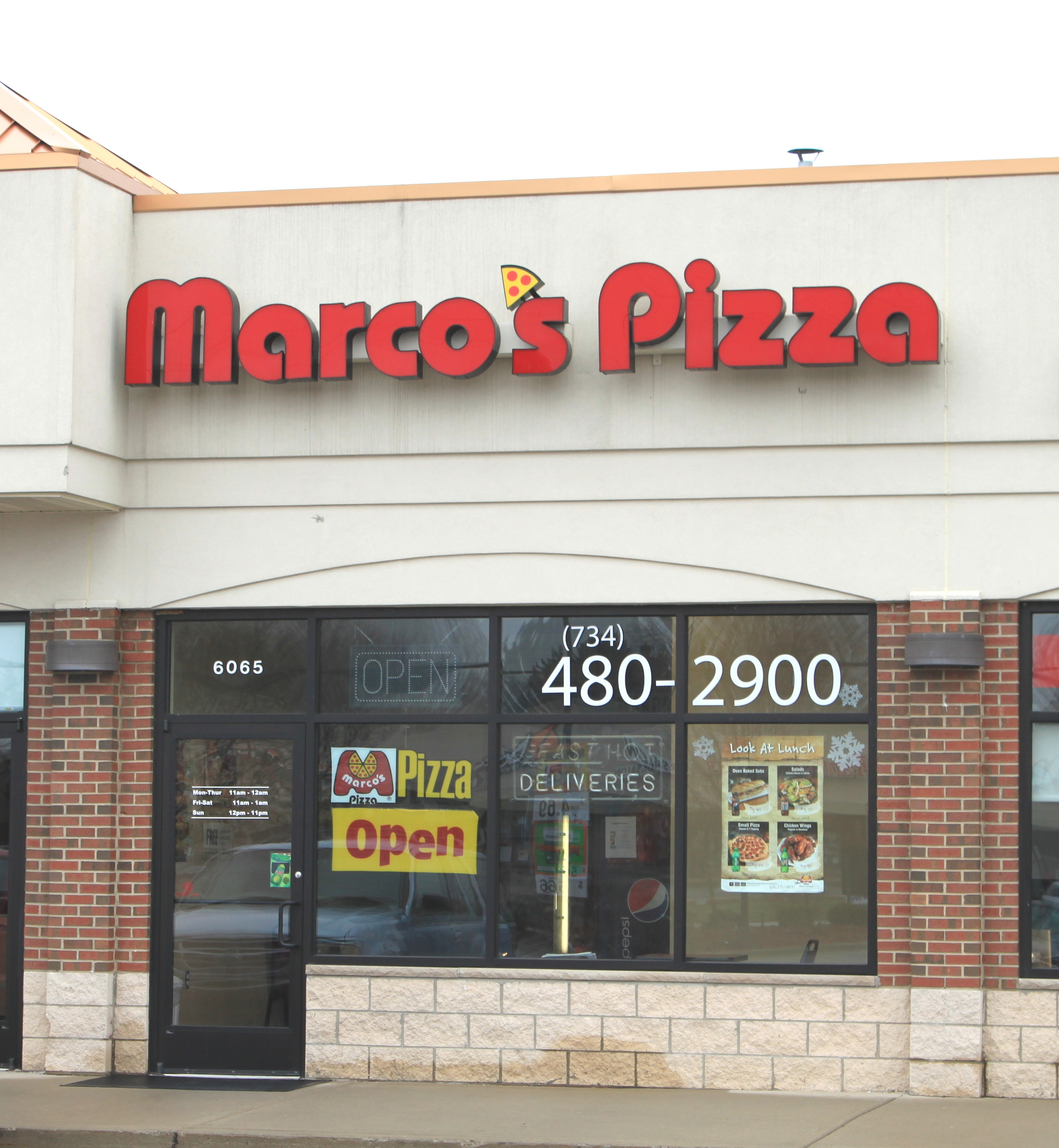 Marco's Pizza shop, 6065 Rawsonville Road, Van Buren Township, Michigan